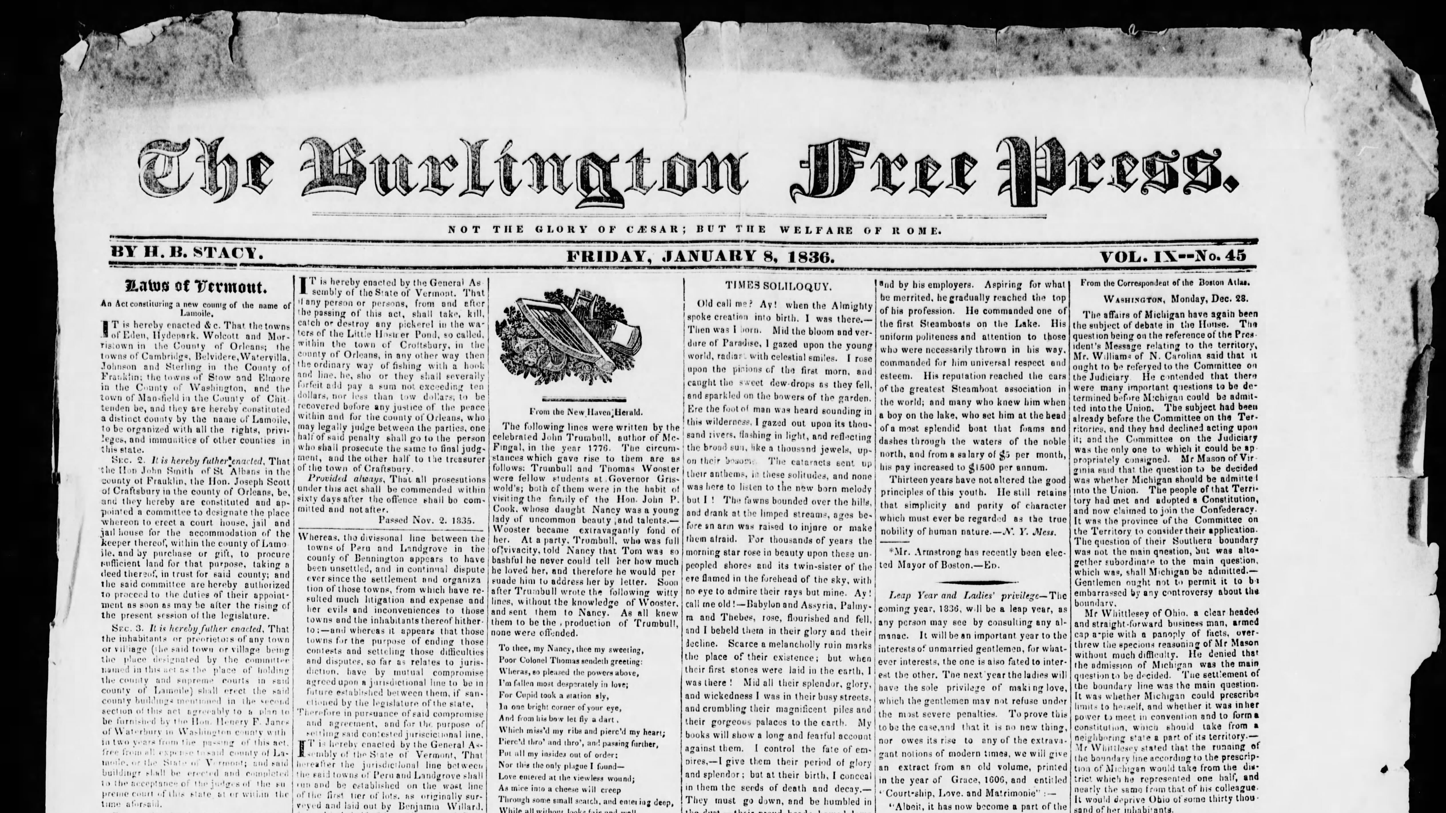 The original motto of the Burlington Free Press shown in this 1836 edition of the paper was “Not the glory of Caesar, but the welfare of Rome".